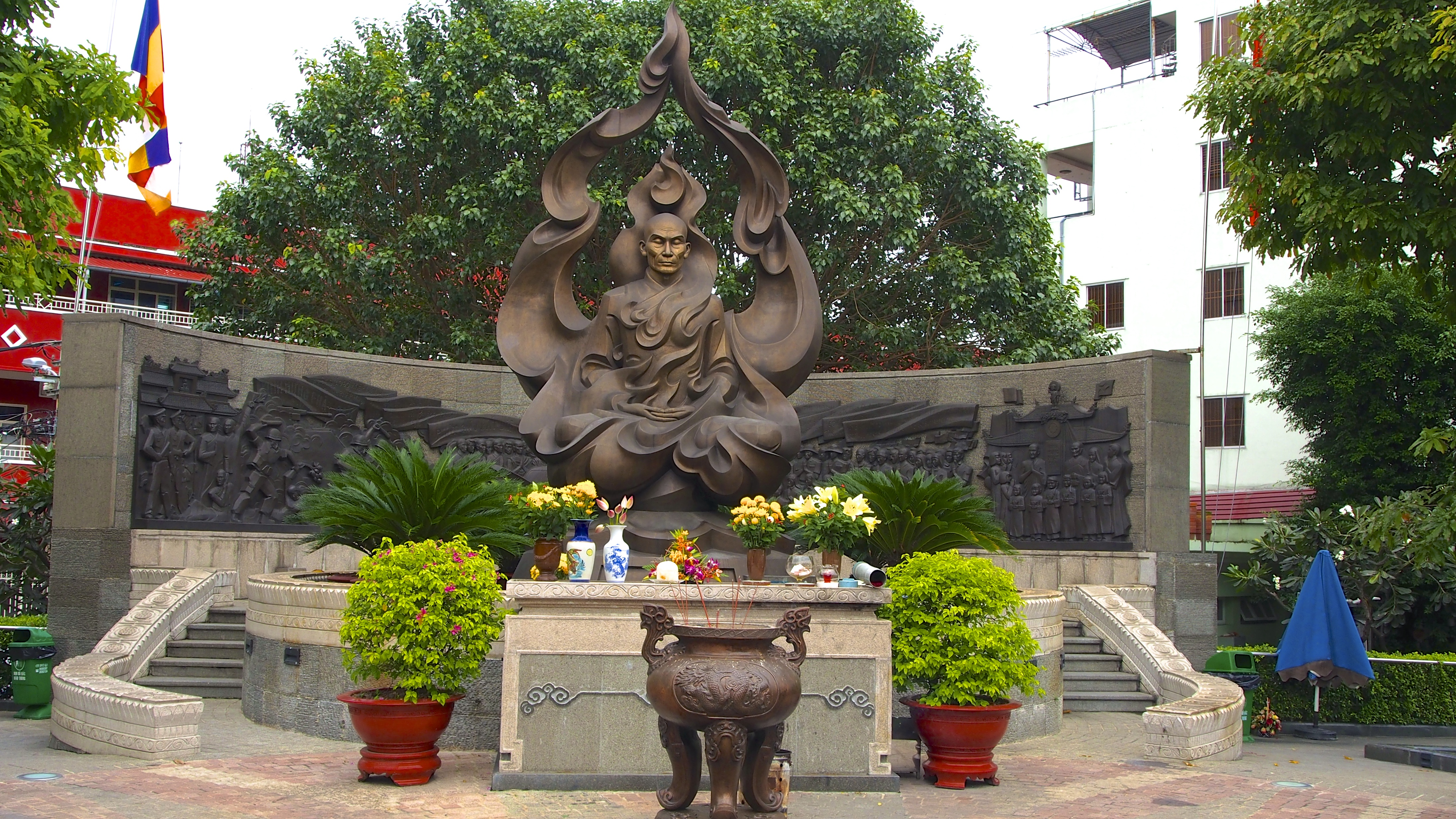 The Venerable Thich Quang Duc Monument at the intersection where Quang Duc performed his self-immolation, Phan Dinh Phung (now Nguyen Dinh Chieu) Street and Le Van Duyet (now Cach Mạng Thang Tam) Street